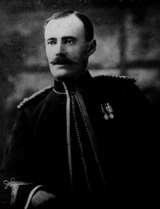 Francis J Fitzgerald North West Mounted Police 1905